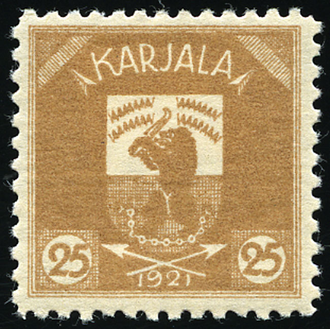 Stamp of Karelia, coat of arms, 1922, 25p.